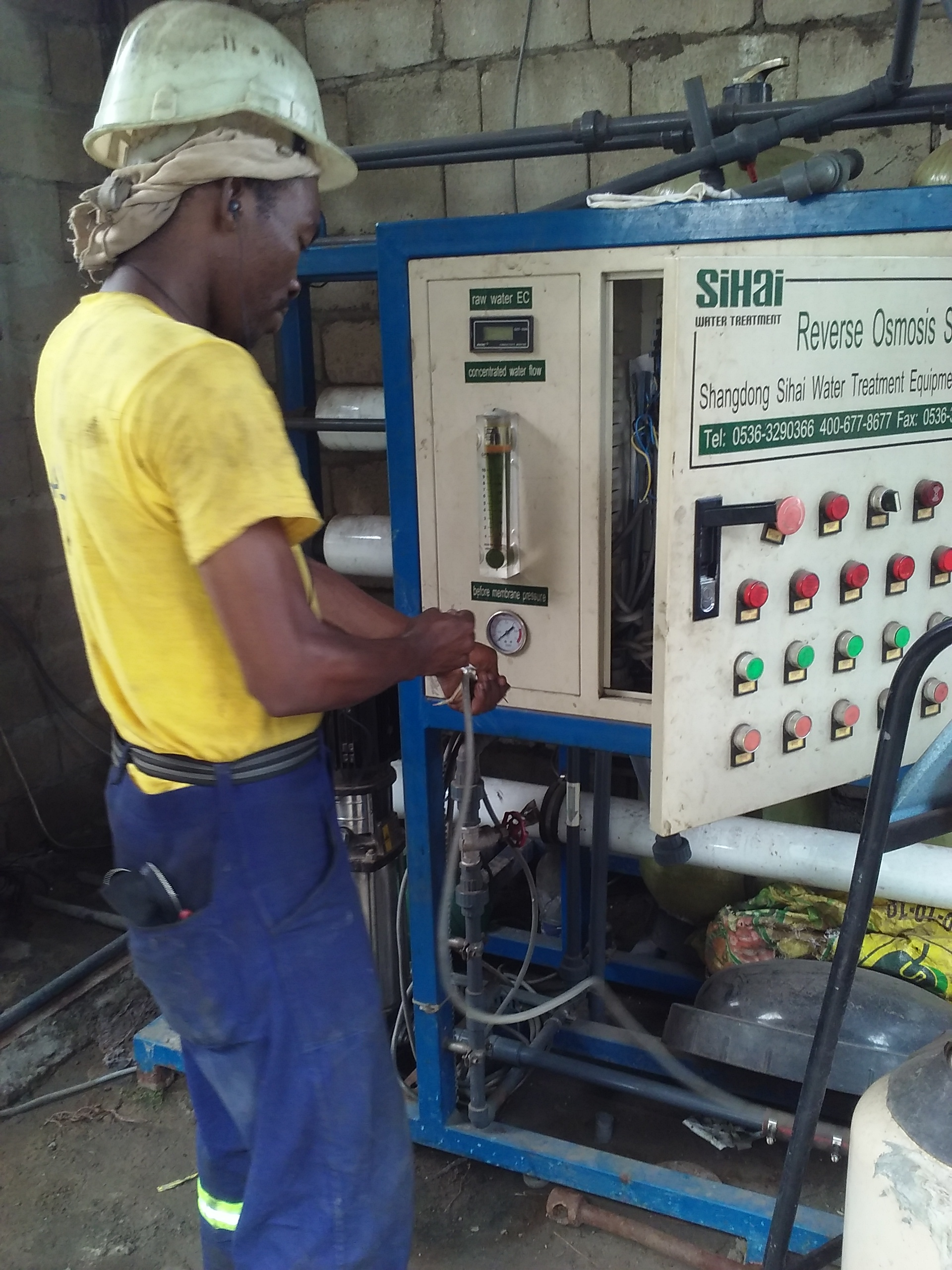 Engineering This is an image of "African people at work" from Cameroon